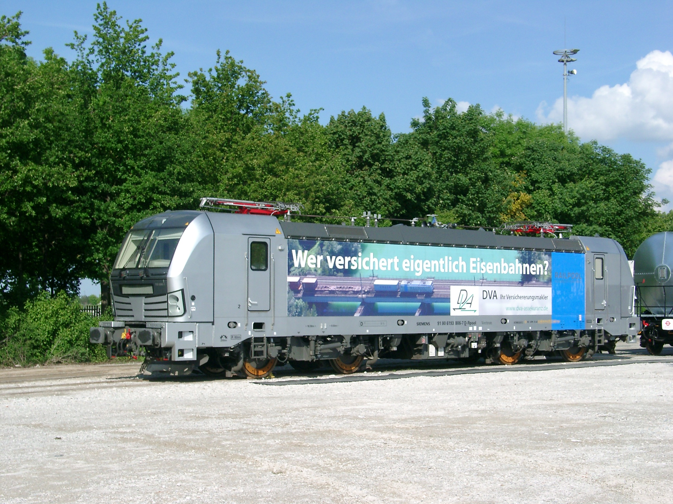 Railpool 193 806